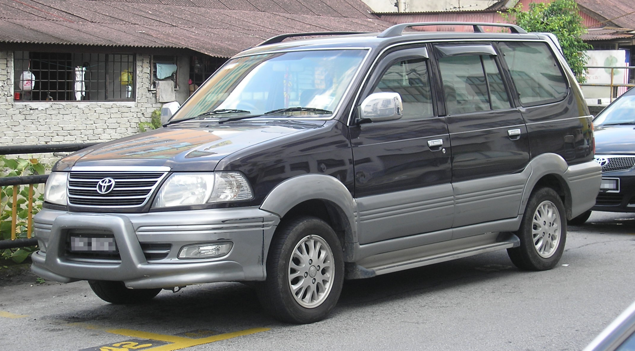 Front-side shot of a fifth generation, third facelifted Toyota Unser, in Kajang, Selangor, Malaysia.